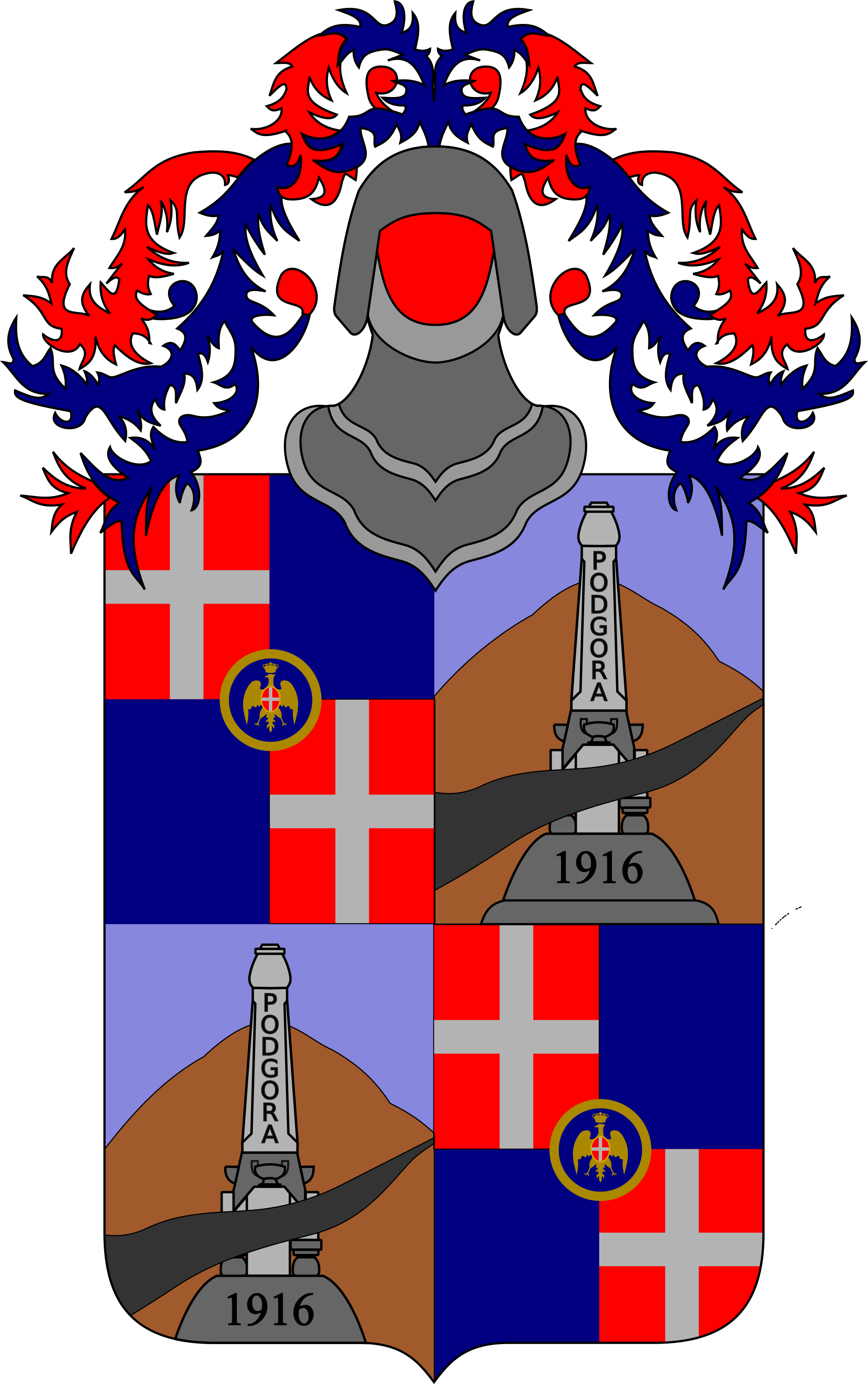 Coat of Arms of the 12th Infantry Regiment "Casale", Royal Italian Army, 1939